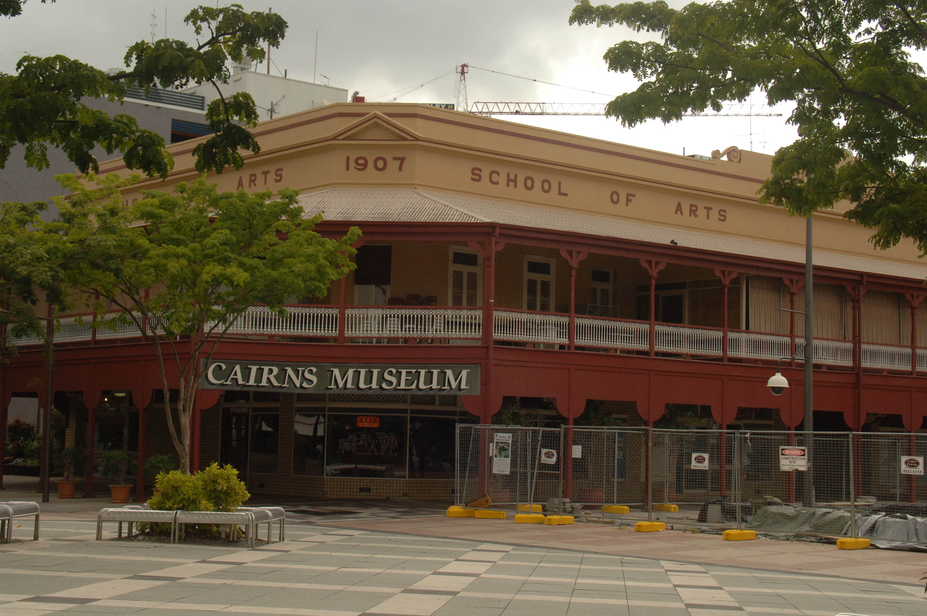 The museum is located in the 1907 School of Arts; Cairns, Queensland, Australia.